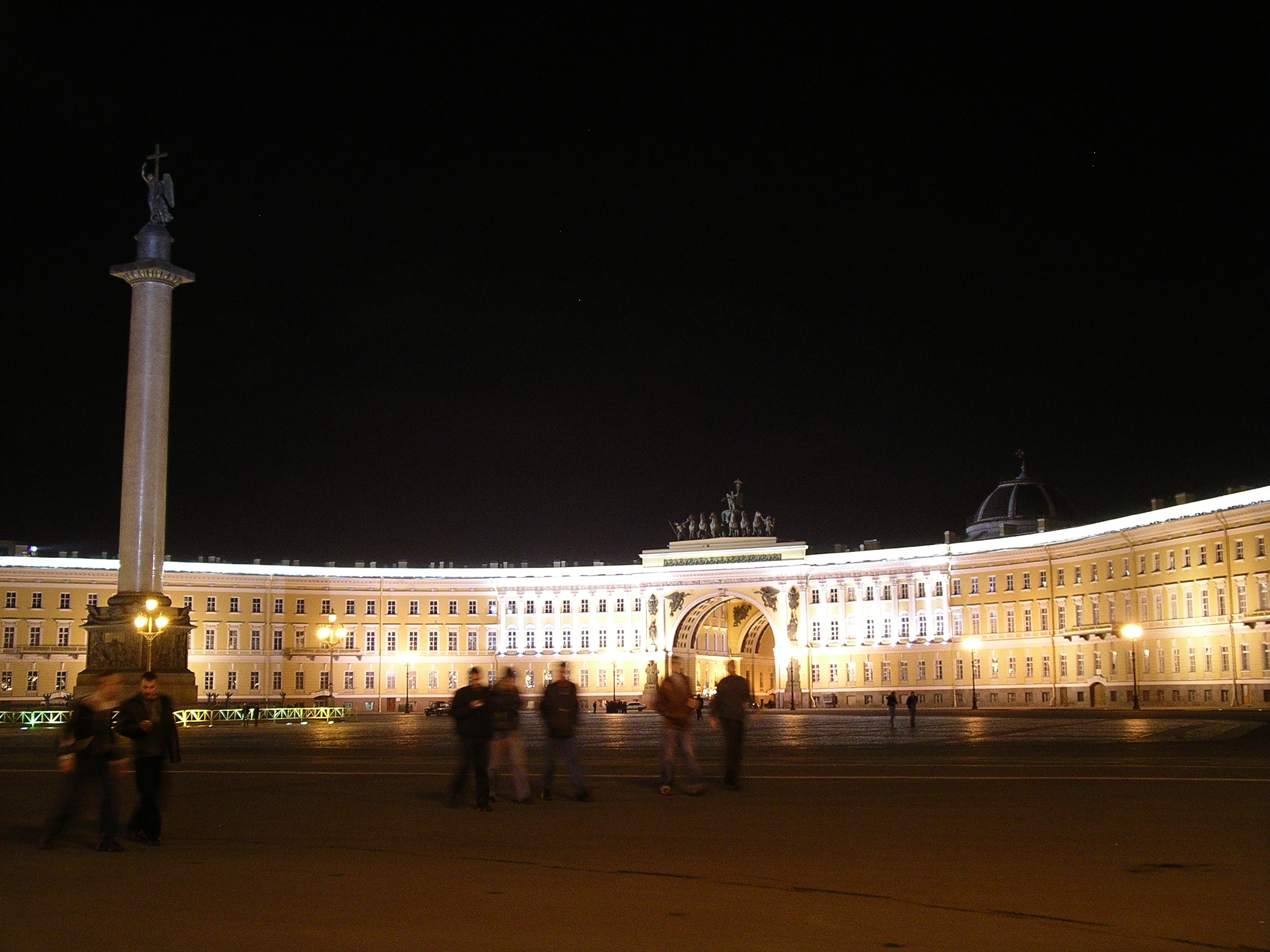 Palace Square at Night, St. Petersburg.